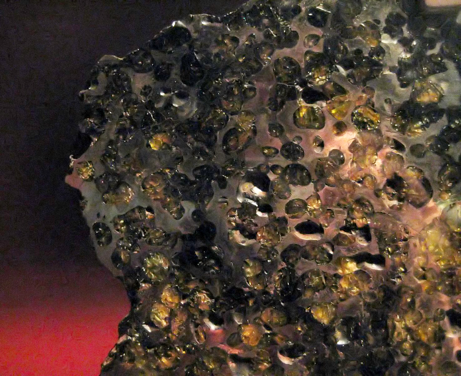 Brenham meteorite slice, American Museum of Natural History